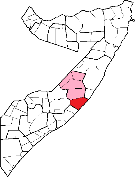 Location of the Ceel Dheer (El Dher) district in the Galguduud region, Somalia. Boundaries reflect those endorsed by the Republic of Somalia in 1986.